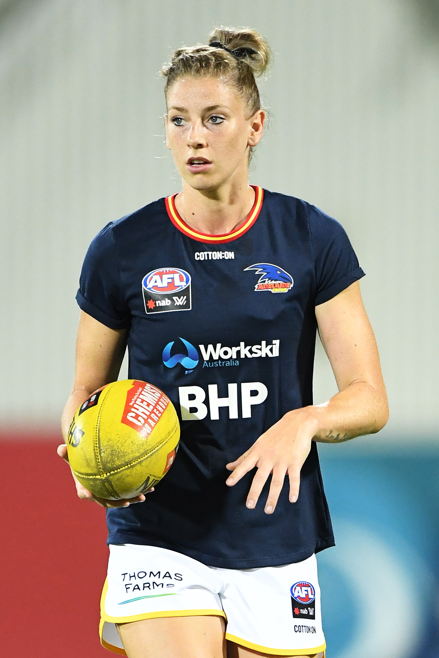 Deni Varnhagen of Adelaide during the 2019 AFL Women's practice match between the Adelaide Football Club and Fremantle Football Club at TIO Stadium on January 19, 2019 in Darwin Australia.